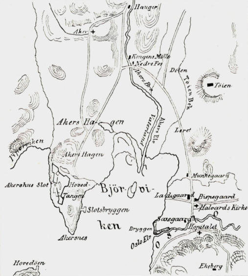 A map of Oslo around 1600